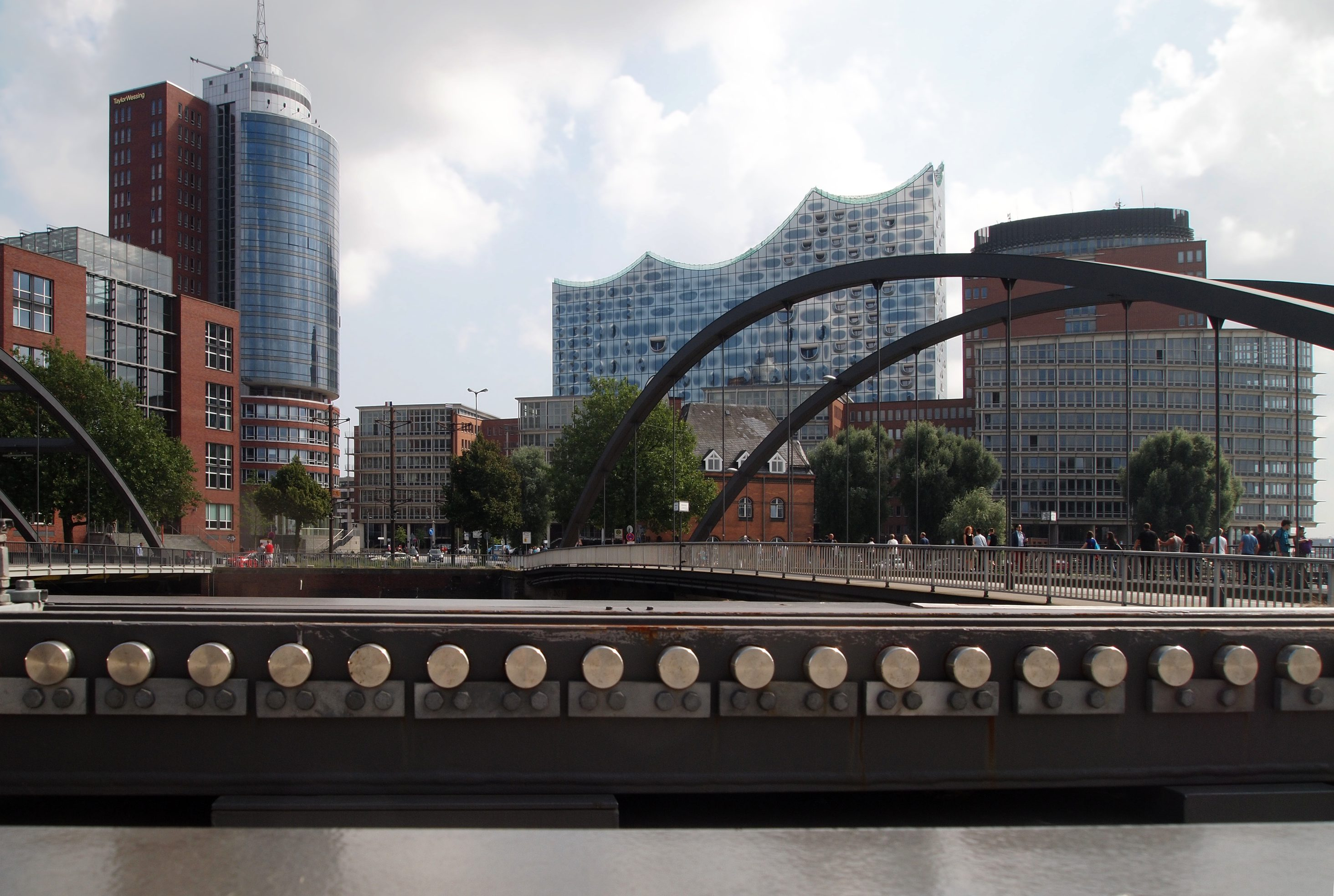 Buildings in the Hamburg HafenCity